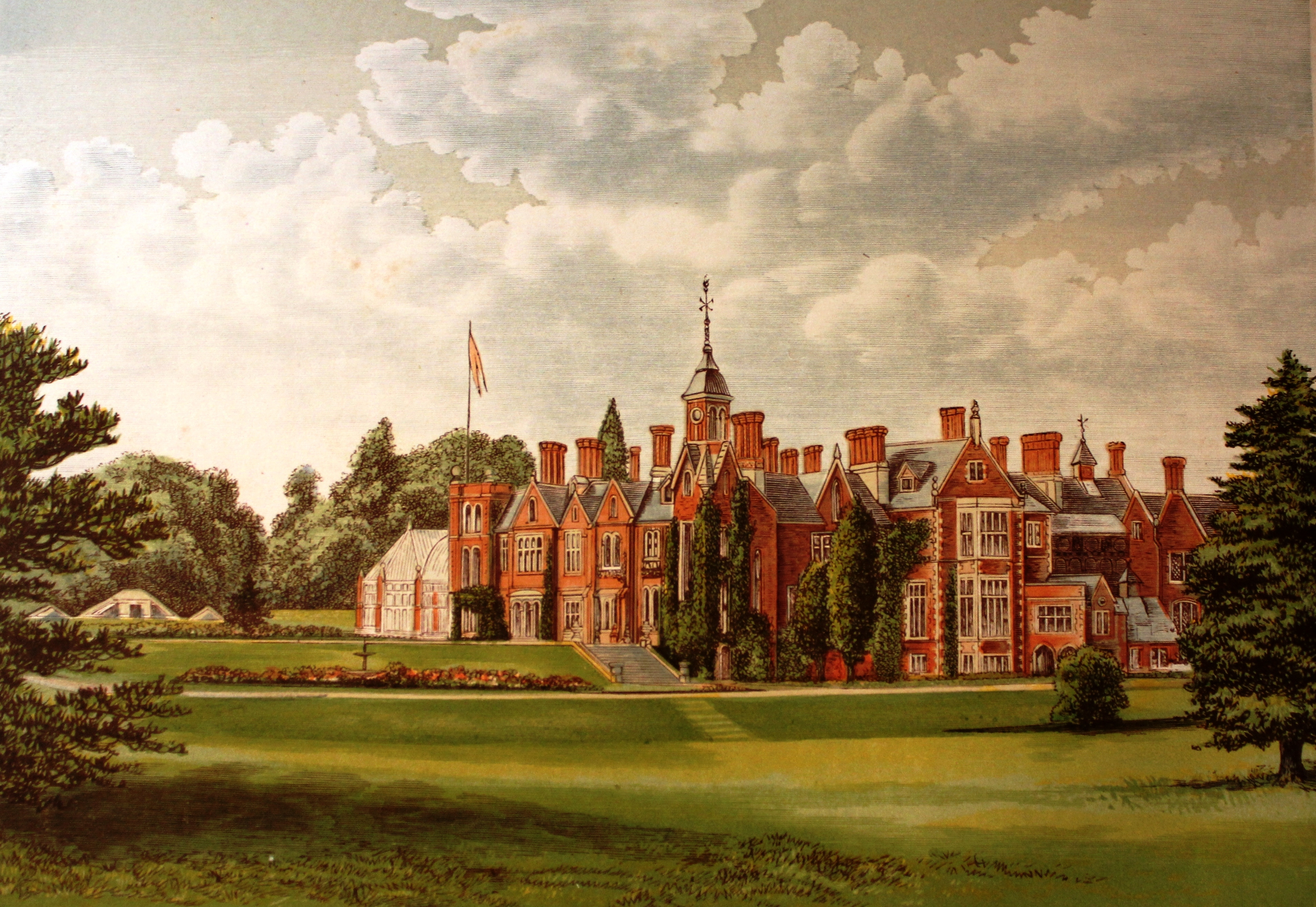 Eight colour printed woodblock plate (Baxter process) of the Hendre in Monmouthshire. pub 1880 see here Published by William Mackenzie, London.writing by the Rev. Francis Orpen and engravings and plates by Alexander Francis Lydon (1836-1917), Benjamin Fawcett (1808-1893), published in 'A series of picturesque views of country seats of noblemen and gentlemen of Great Britain and Ireland'